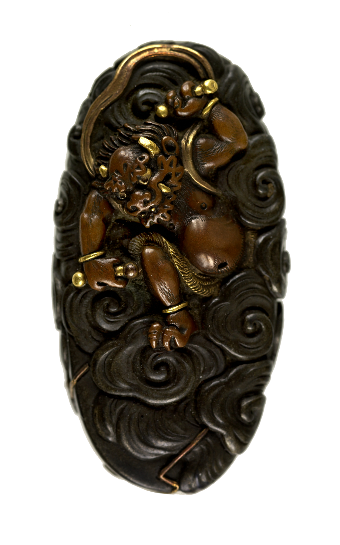 Raijin, the god of thunder, is shown on swirling clouds made of gold and copper. He holds ritual "vajra" thunderbolts in his hands. This is part of a set with Walters 51.1018.